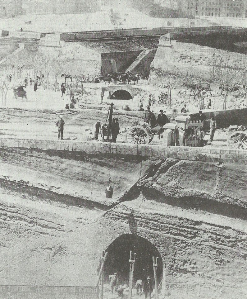 Floriana Railway Tunnel excavations in April 1882. The photo was taken from the top of Puterial - the Floriana granaries (fosses) can be seen in the top left of the photo. The photo was taken by the Railway's official photographer H.J. Davidson. Also